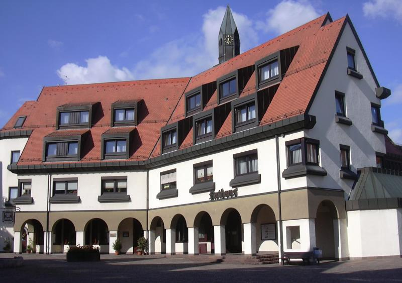 Town hall of Neckarwestheim, Germany